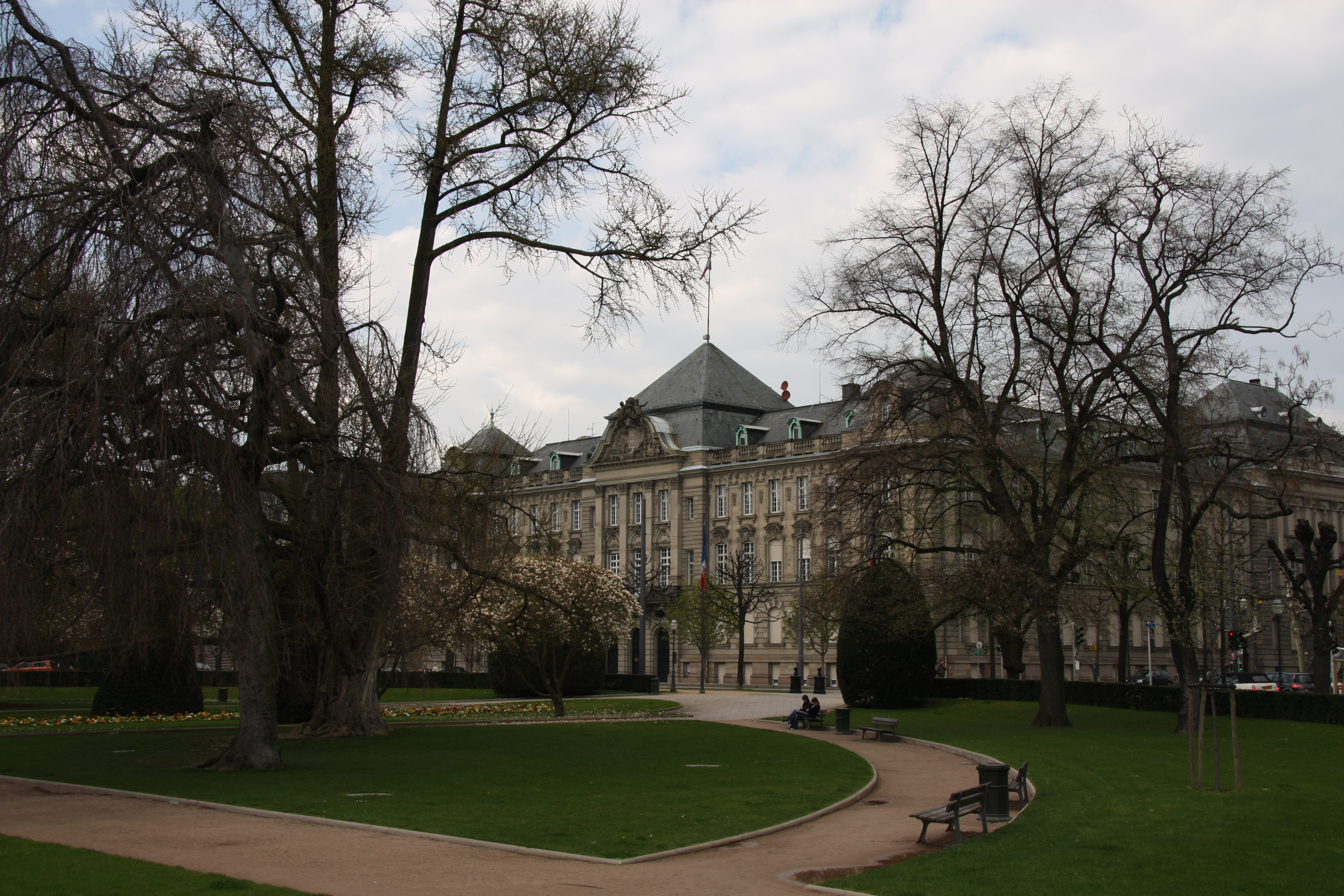 Strasbourg